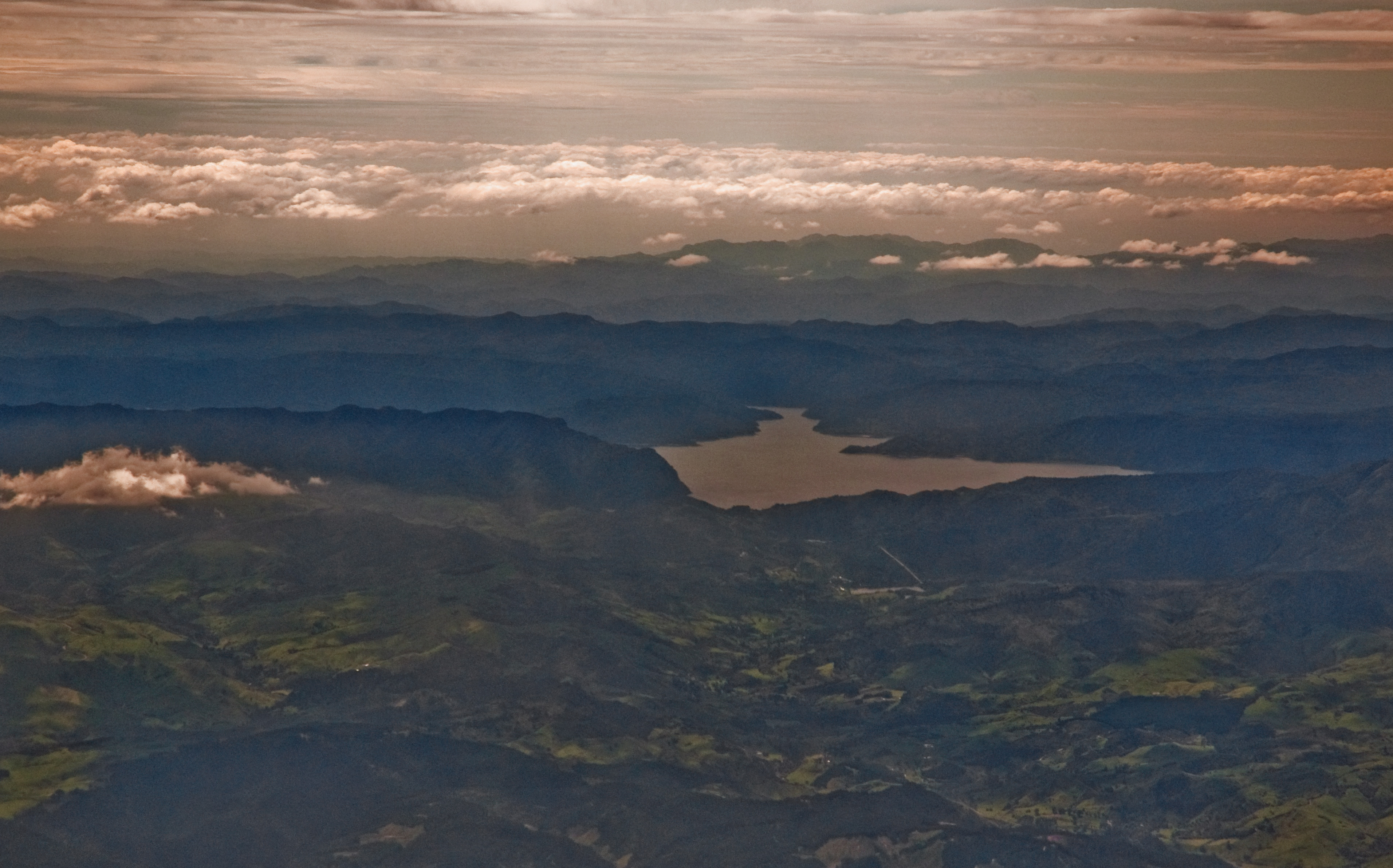 En route Wellington to Gisborne in an Eagle Airways Beech 1900D